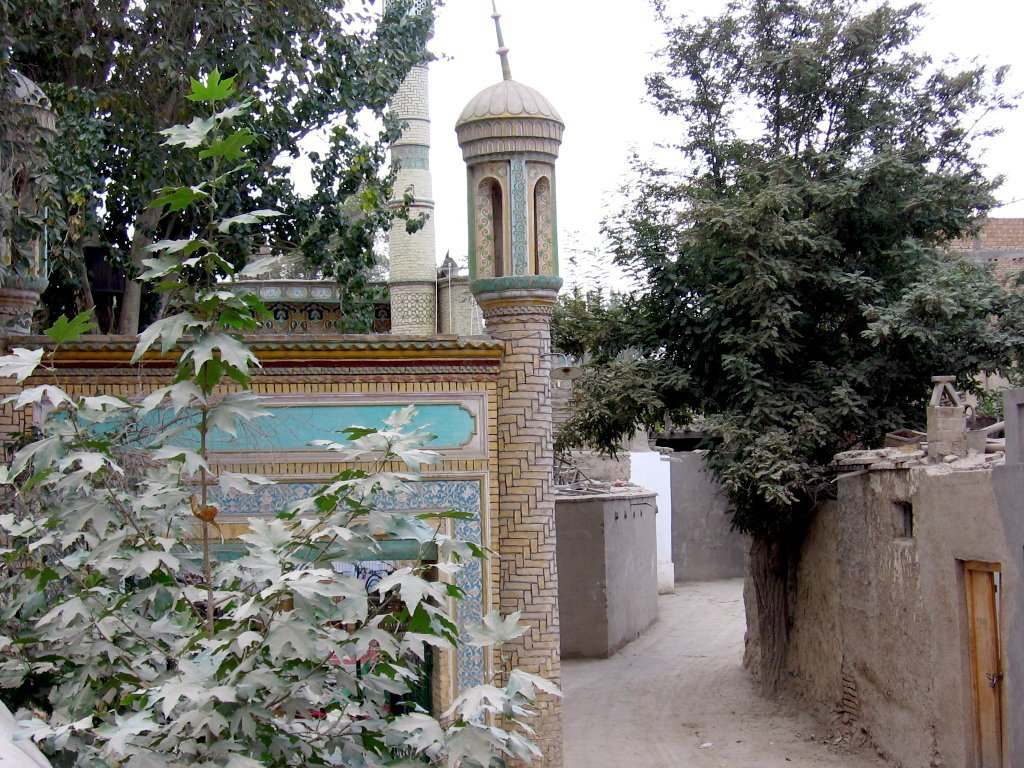 Yarkand (Sache) is an oasis city in the Xinjiang Uygur Autonomous Region of the People's Republic of China. Old city streets.